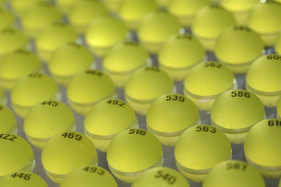 this is a detail of the back of one of yazmany arboleda's 'new vitruvians' pieces that was exhibited at the Imagination gallery in London.